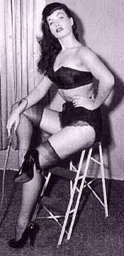 Bettie Page with a whip